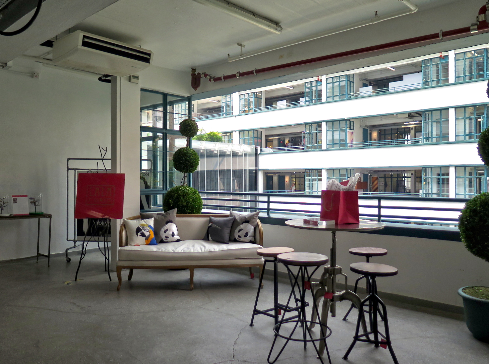 PMQ Staunton Level 3 seats